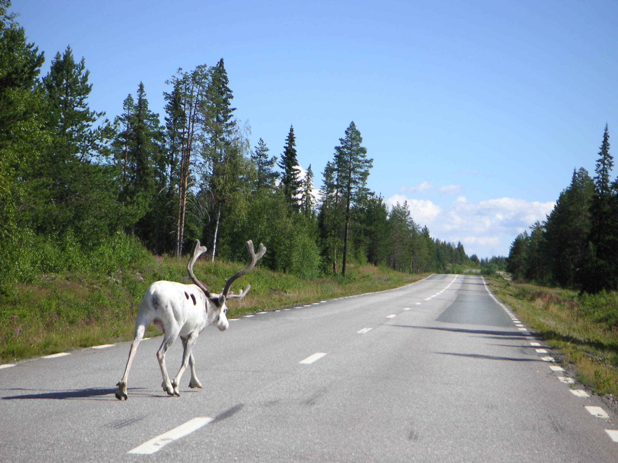 A reindeer on road E45 between Sorsele and Slagnäs, Sweden.